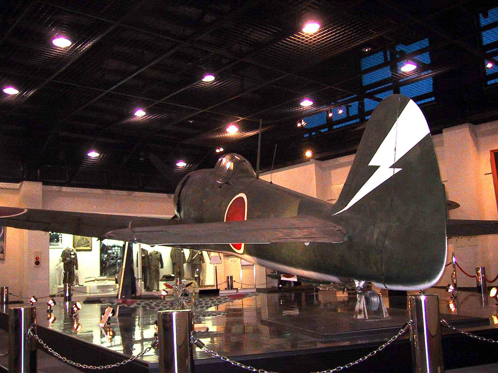 Ki -84 "Hayate" Exhibit Room